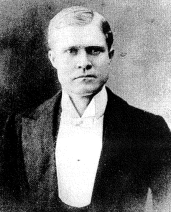 Missionary and explorer Samuel Phillips Werner